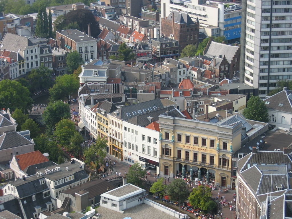 View from The Dom of Utrecht's Oudegracht